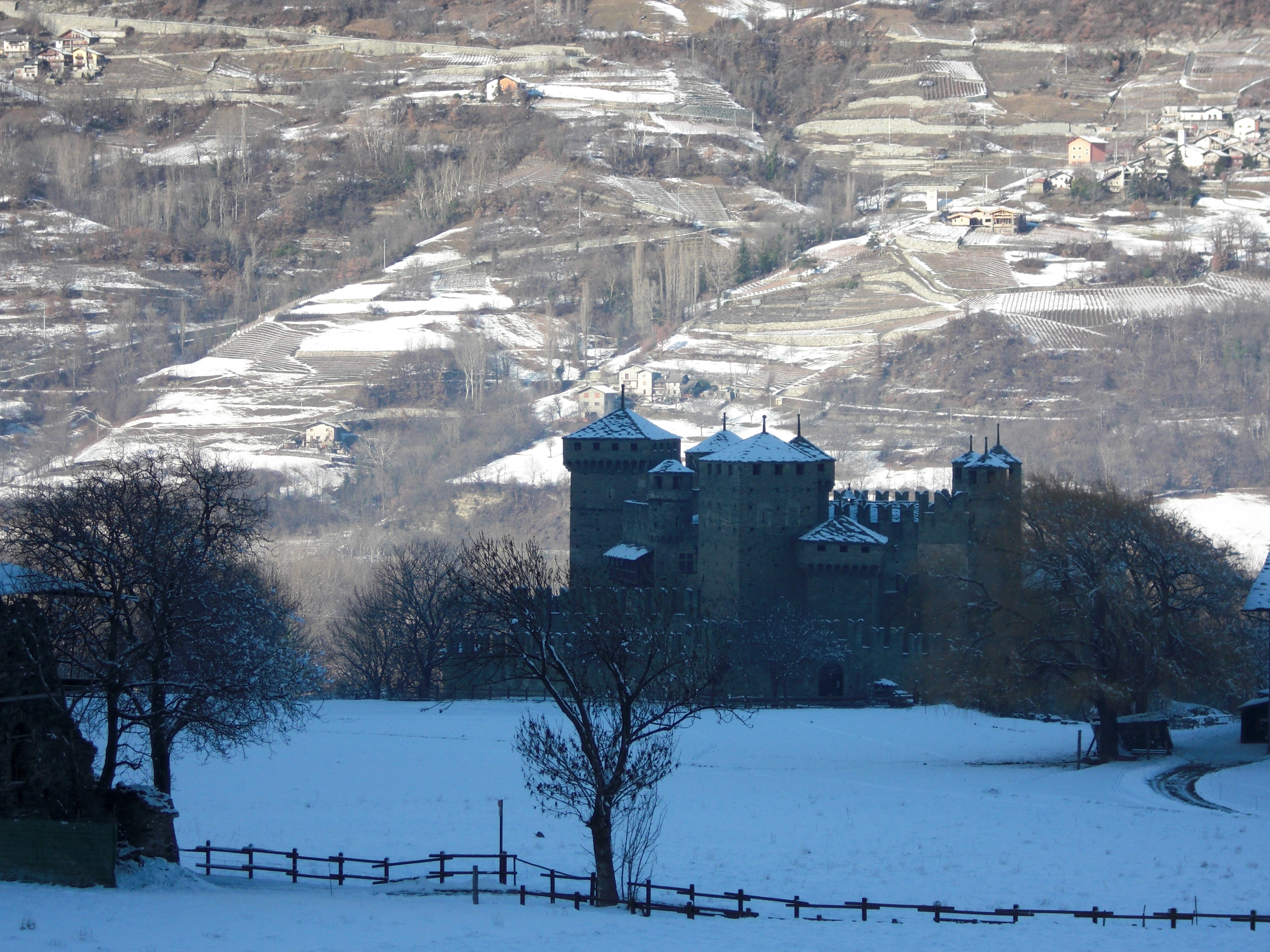 Castle of Fenis in winter